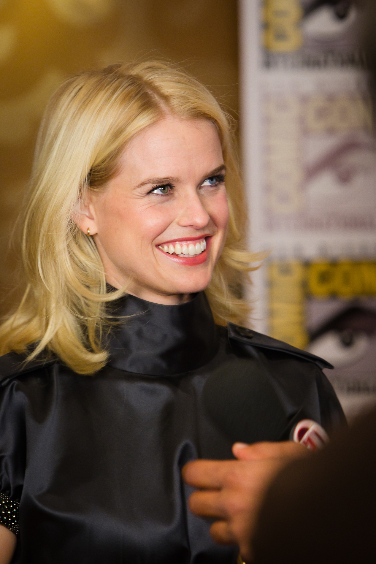 The actress Alice Eve at San Diego Comic-Con International 2011